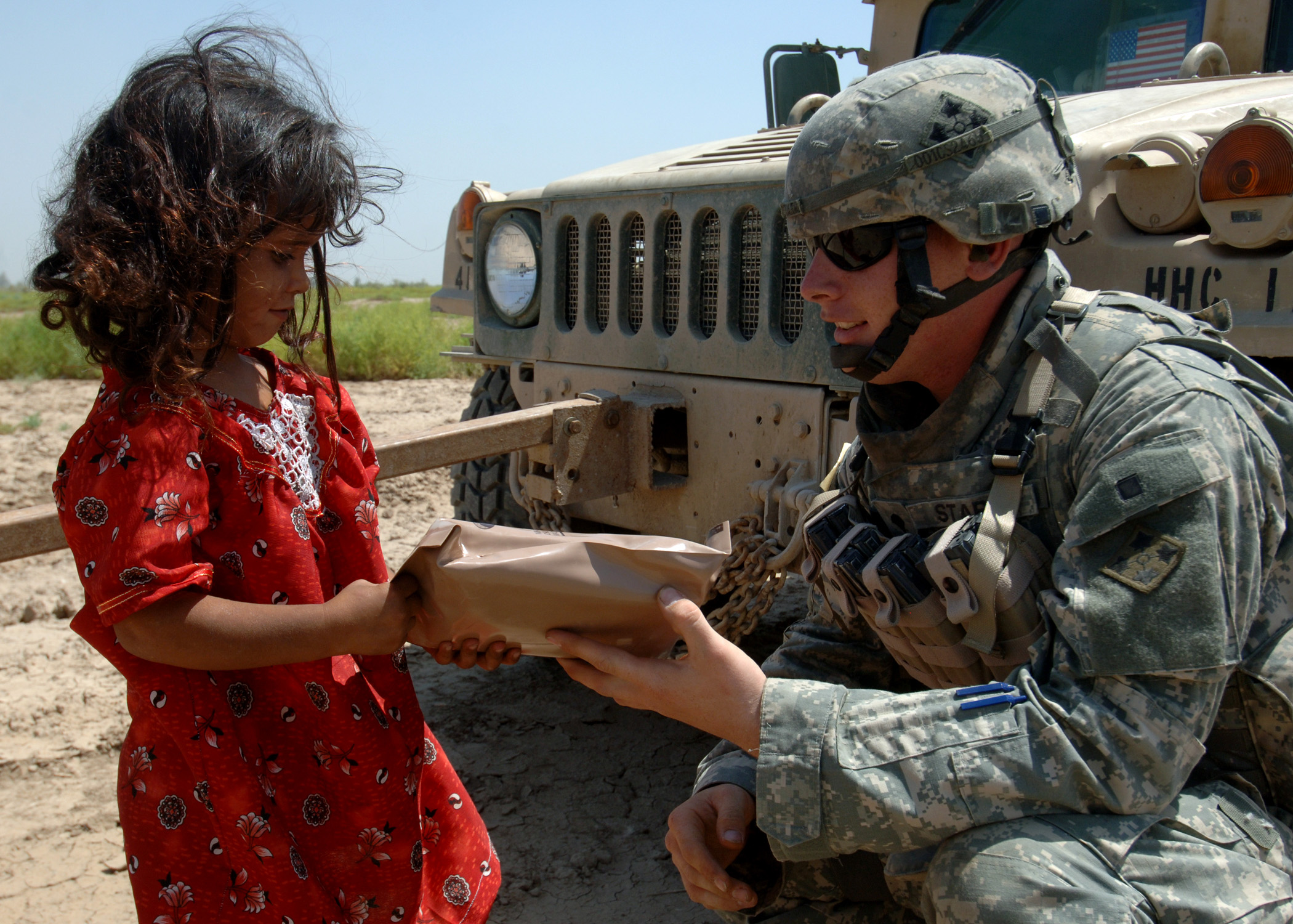 Husiniyah, Iraq (June 3, 2006) - Spc. Christopher Starr from the 1st Special Troops Battalion, 1st Brigade Combat Team, 4th Infantry Division, gives part of a (MRE) to a six-year-old Iraqi girl in Husiniyah, Iraq. U.S. Navy photo by Photographer's Mate 1st Class Michael Larson (RELEASED)